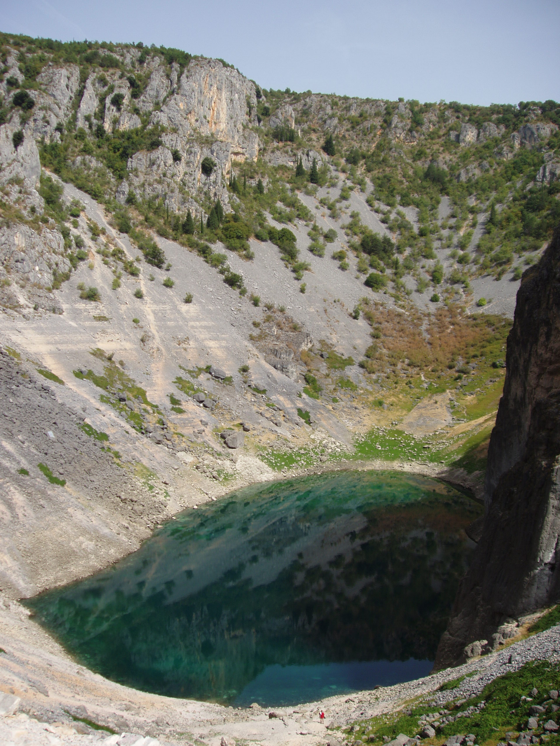 Blue Lake (Plavo jezero), a cenote (karst lake, reflecting the karst's water table) near Imotski, Croatia